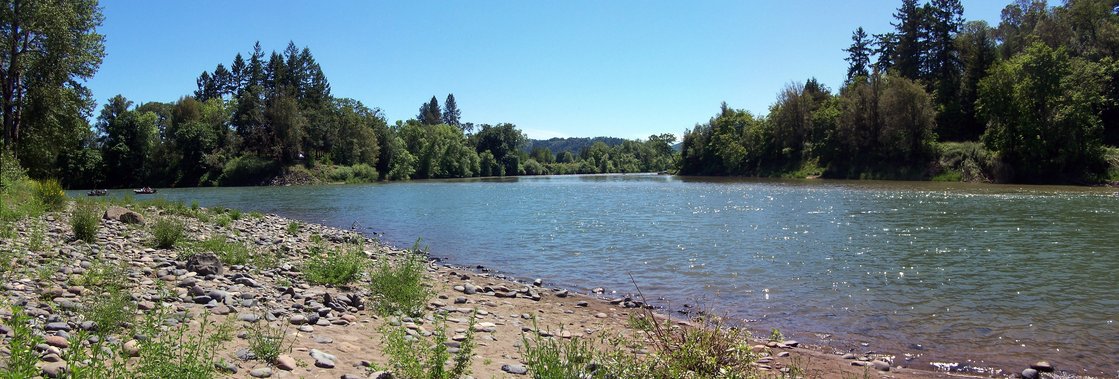 The North Umpqua River (left) meets the South Umpqua River (center), creating the Umpqua River (right).